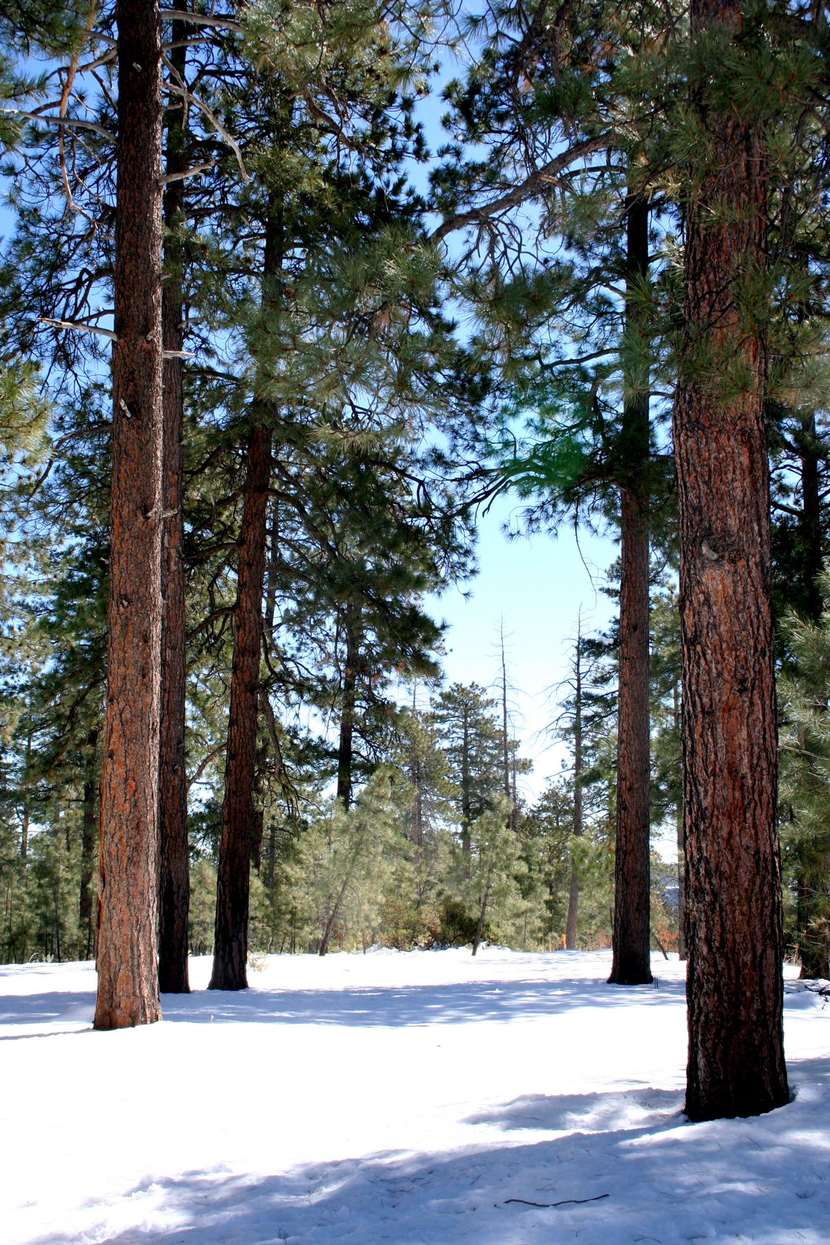 Pinus ponderosa, Mogollon Rim near Strawberry, Gila County, Arizona.